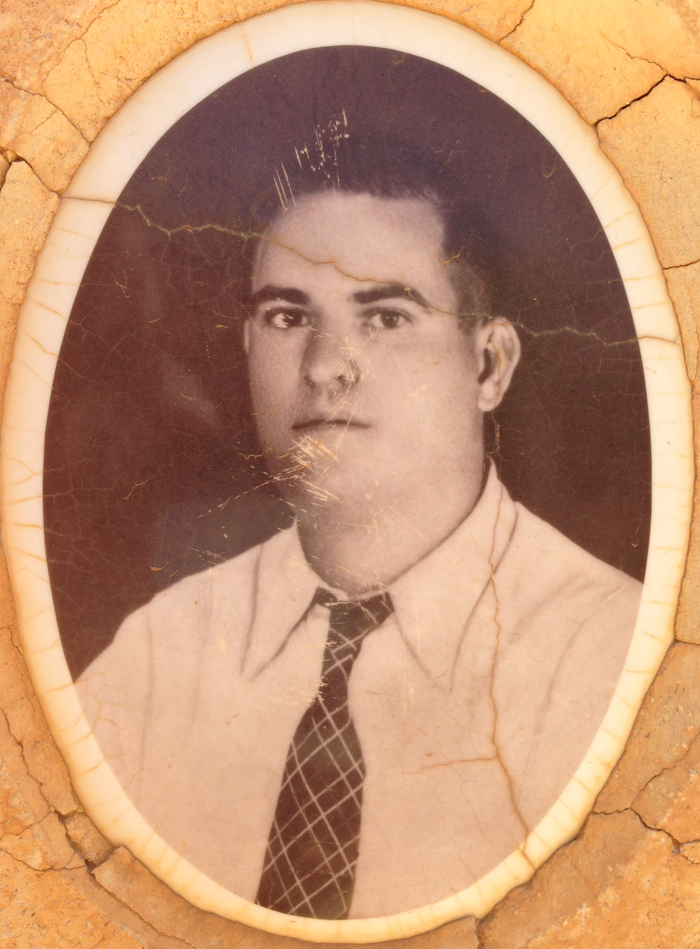 Grave photo of ΔΙΜΗΤΡΙΟΣ ΧΡΑΜΠΑΝΗ, who was born in 1919 and died at the age of 26, in the Greek section of the Christian cemetery in Khartoum, Sudan